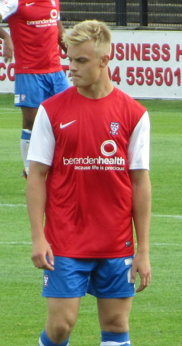 Tom Chamberlain playing for York City against AFC Wimbledon at Bootham Crescent, York on 7 September 2013